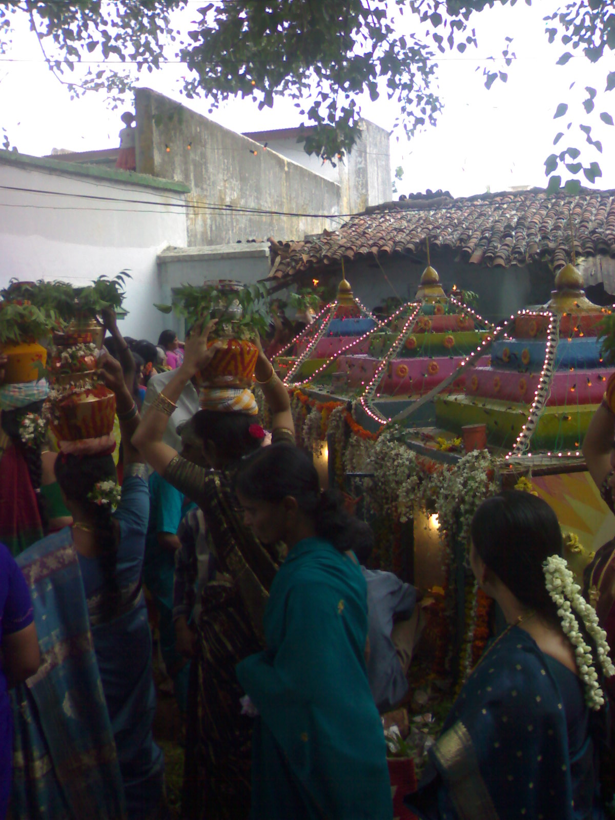 Women doing parikramas around the temple.